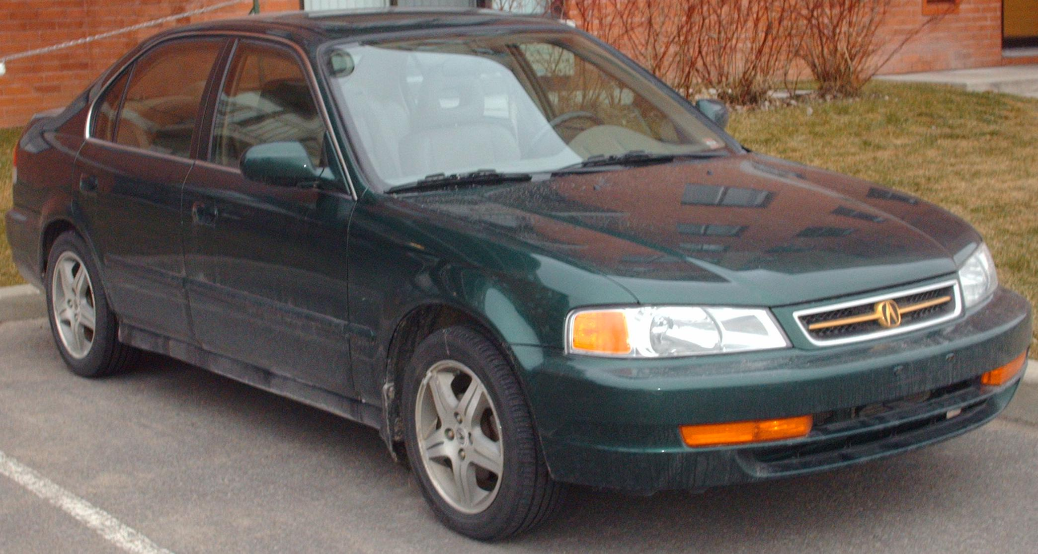 1999-2000 Acura 1.6EL photographed in Montreal, Quebec, Canada.